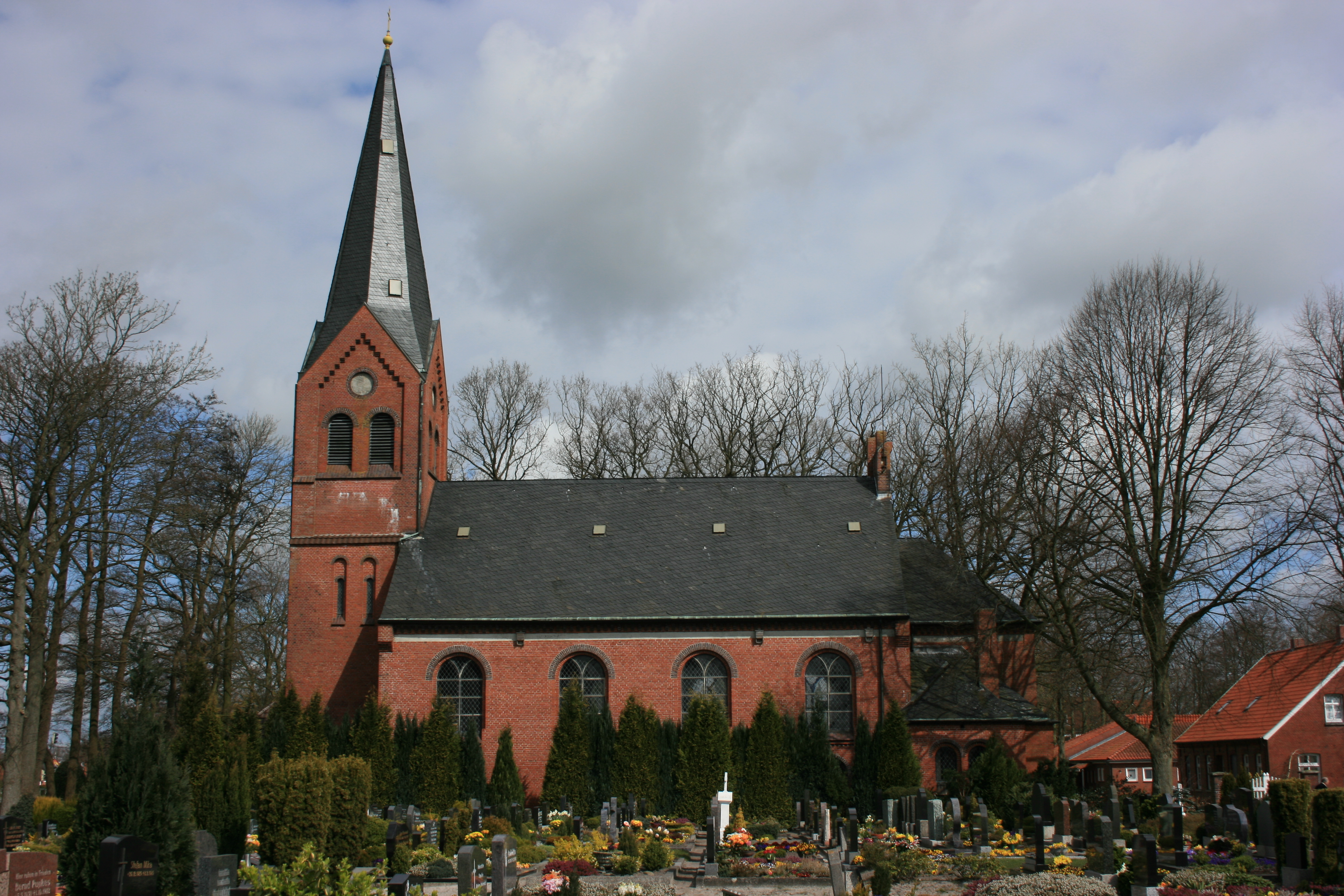 Jewish Cemetaries in East Frisia Curch in Moordorf (East Frisia)